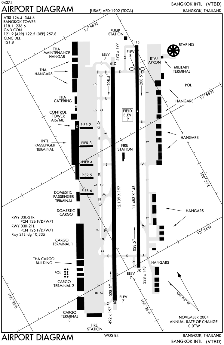 USAF diagram of Bangkok International Airport NGA diagram (?) of Don Mueang International Airport